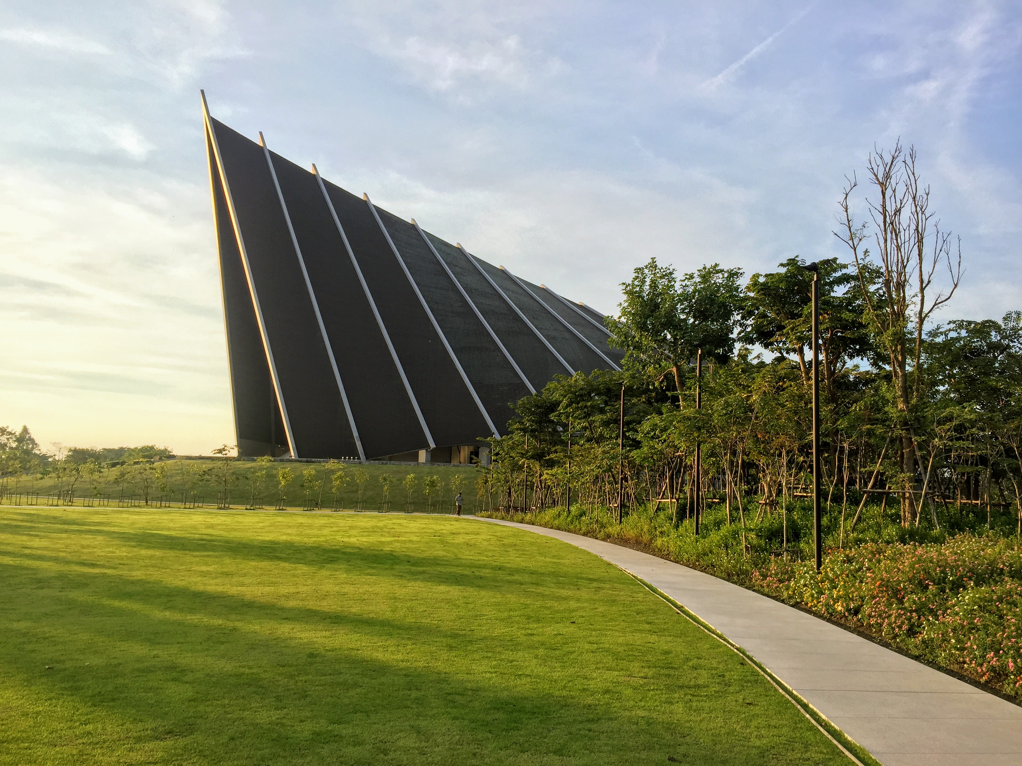 Prince Mahidol Hall in November, 2017